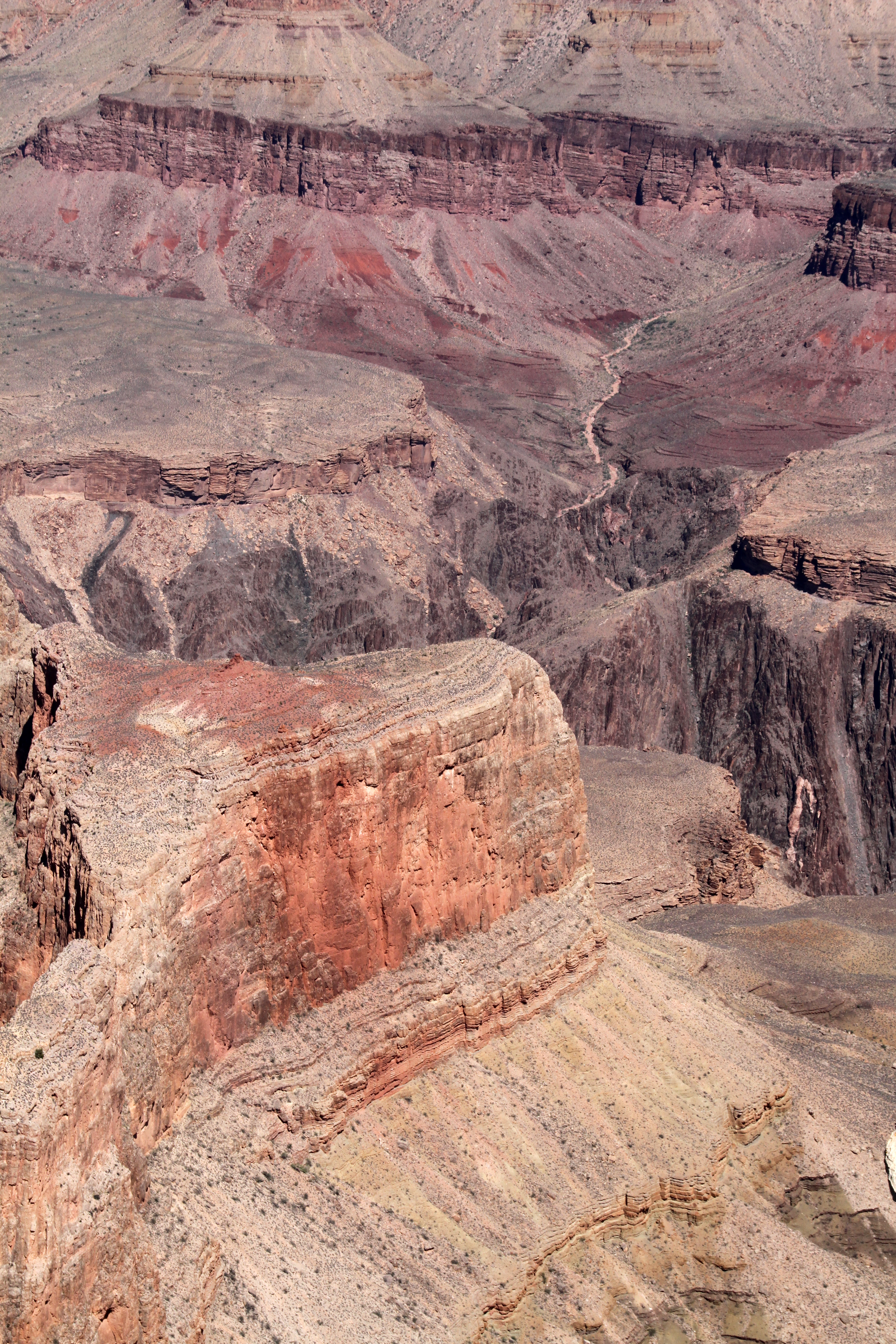 Hopi Point Grand Canyon 3